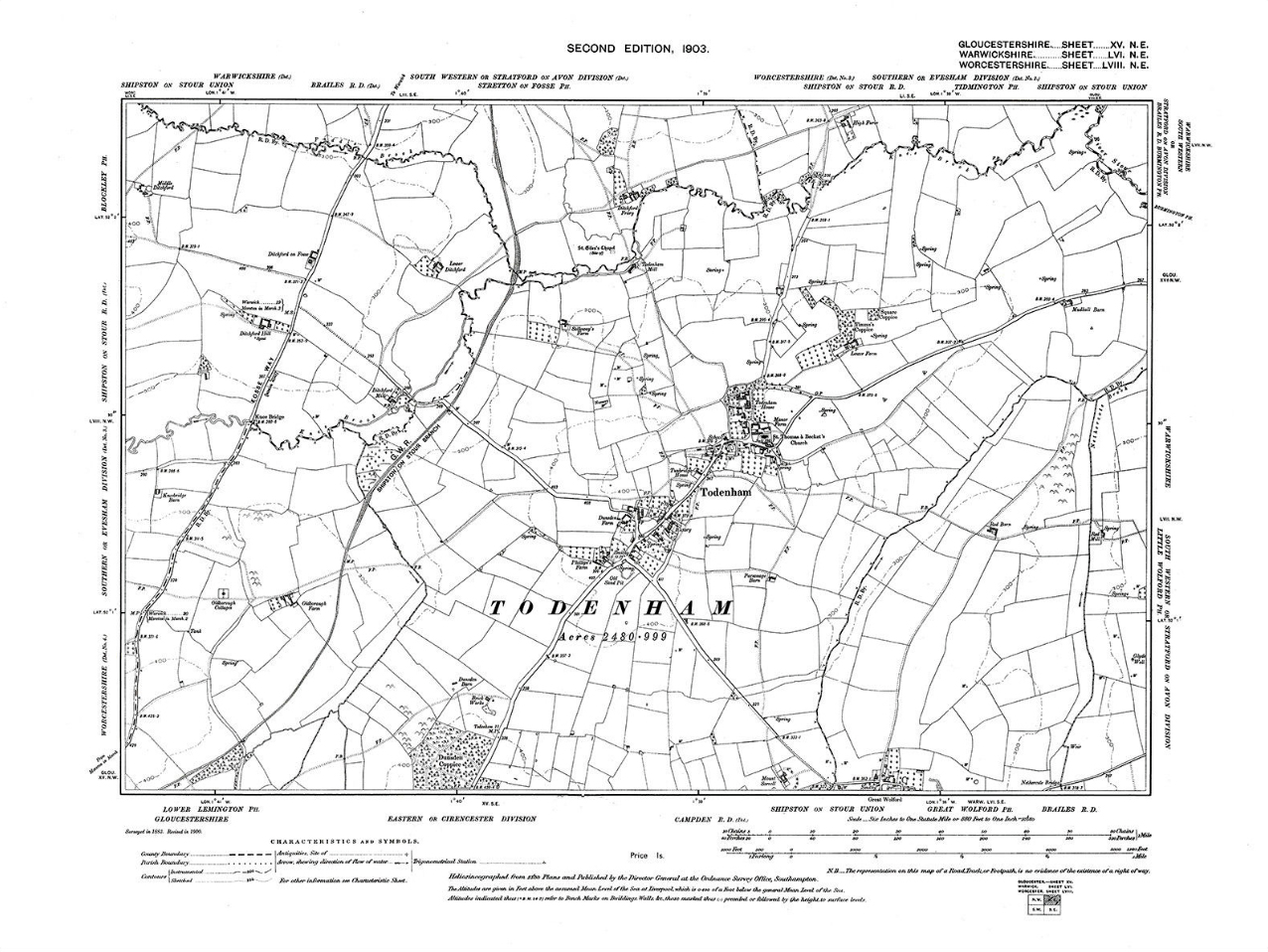 1903 Ordnance Survey map of Todenham in Gloucestershire, England.